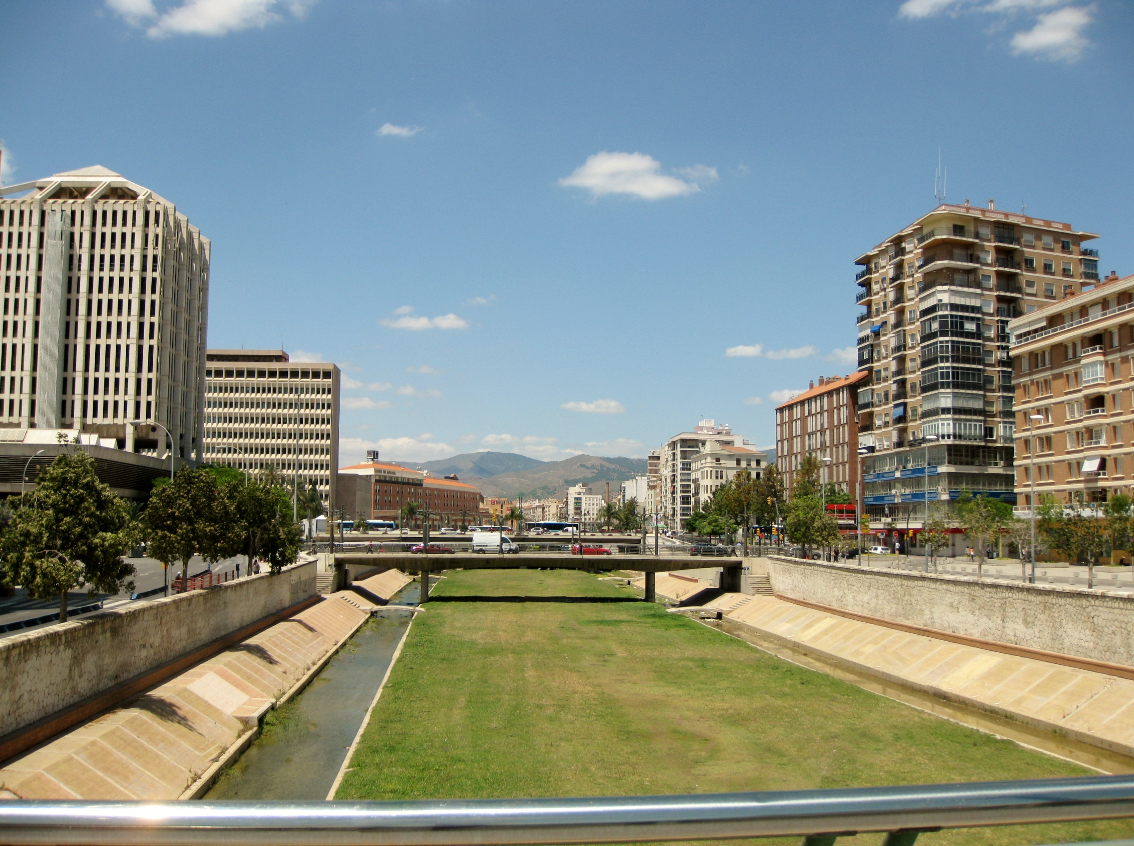 River Guadalmedina, Málaga, España.